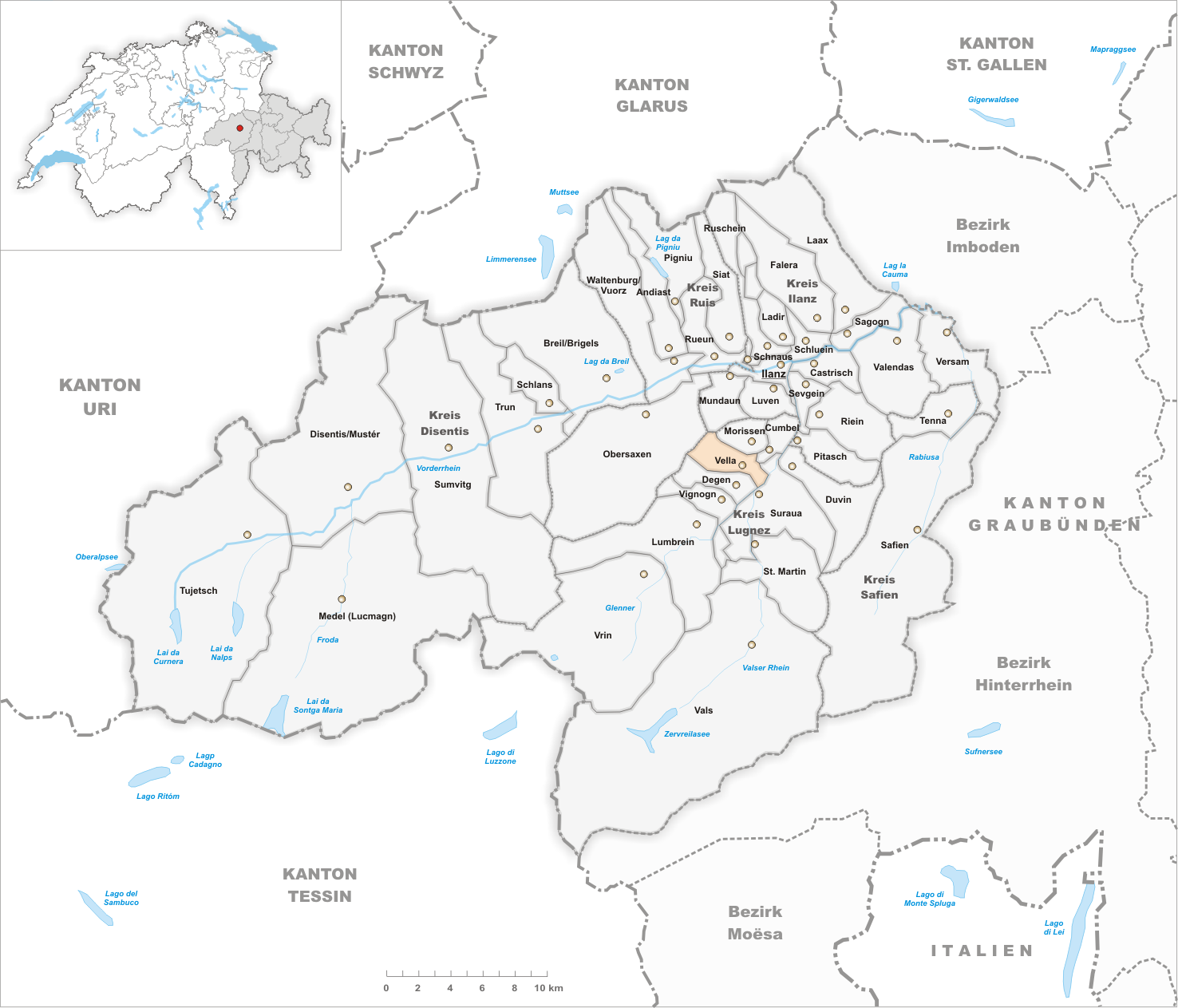 Municipality Vella